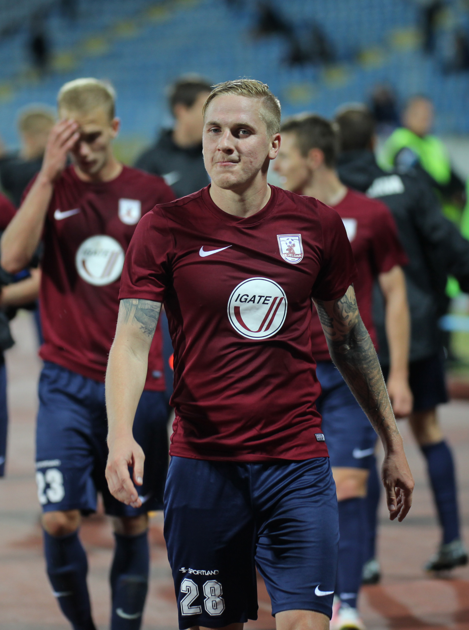 Lazdiņš after FK Jelgava game against Slovan Brtatislava